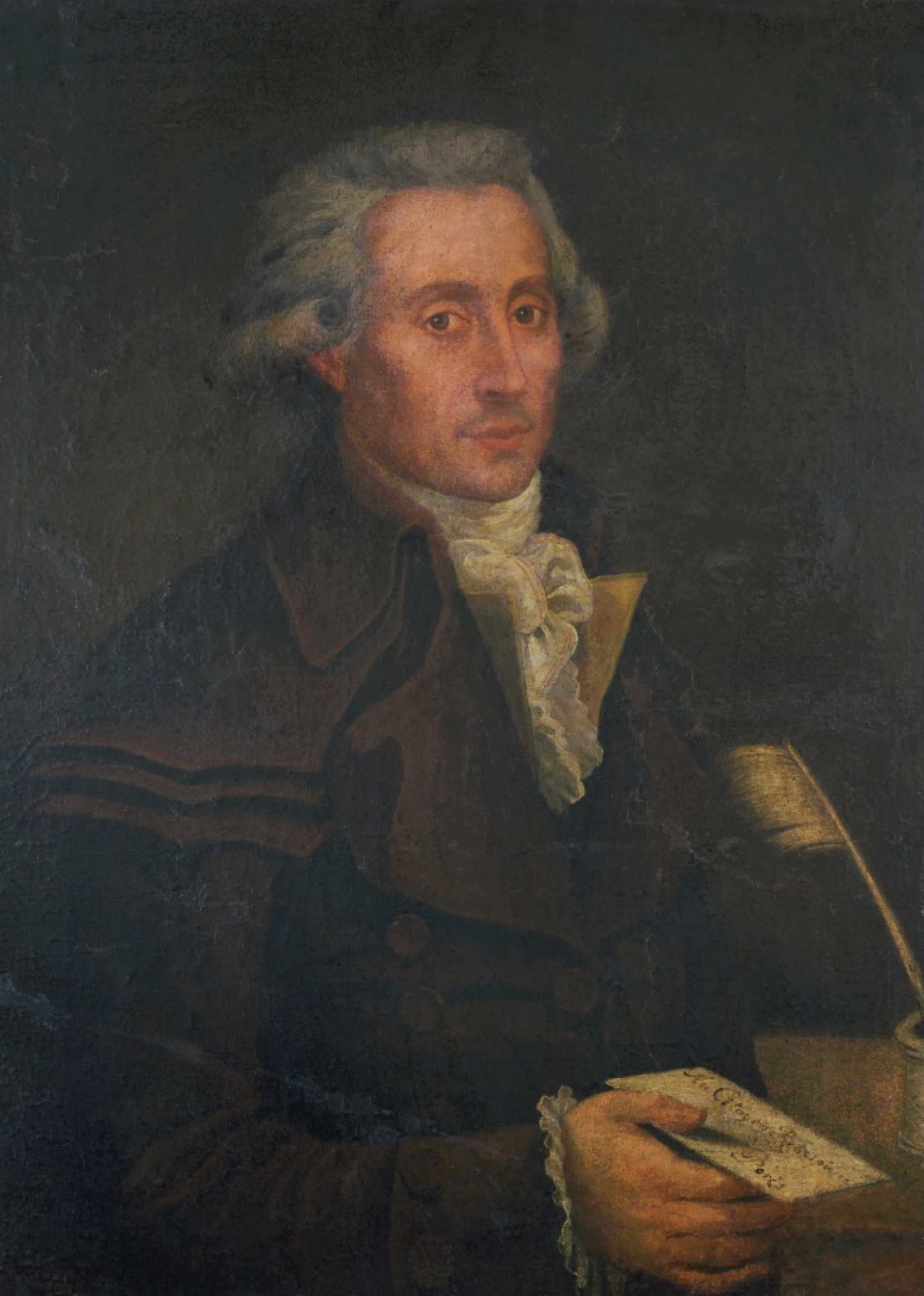 Georges Couthon by François Bonneville